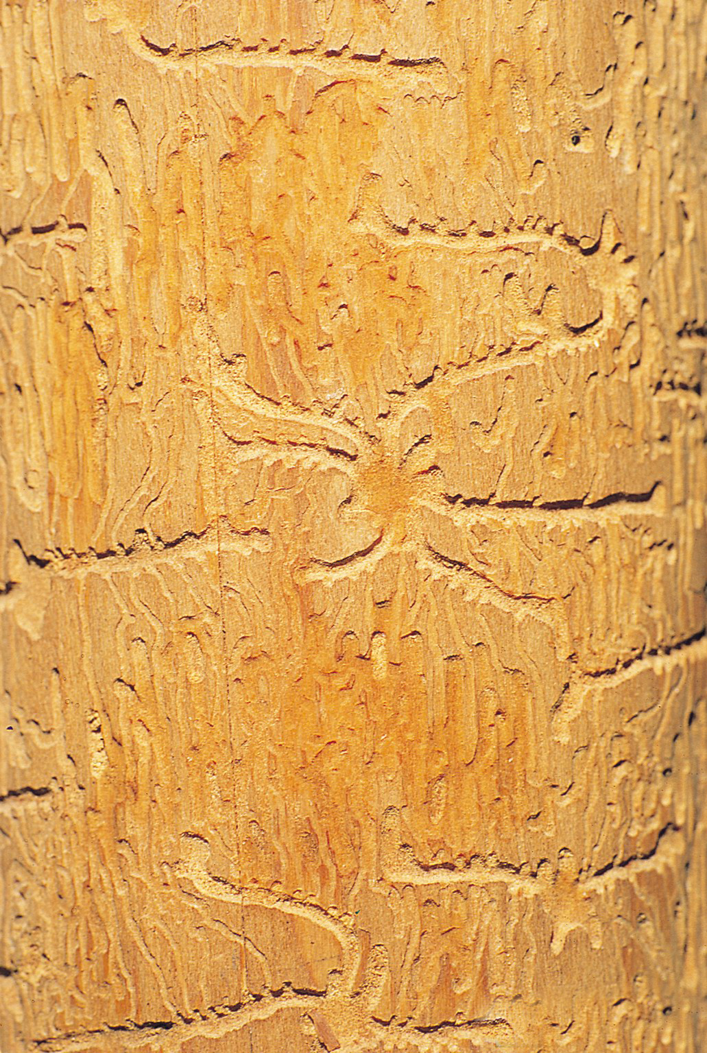 Pityokteines spinidens